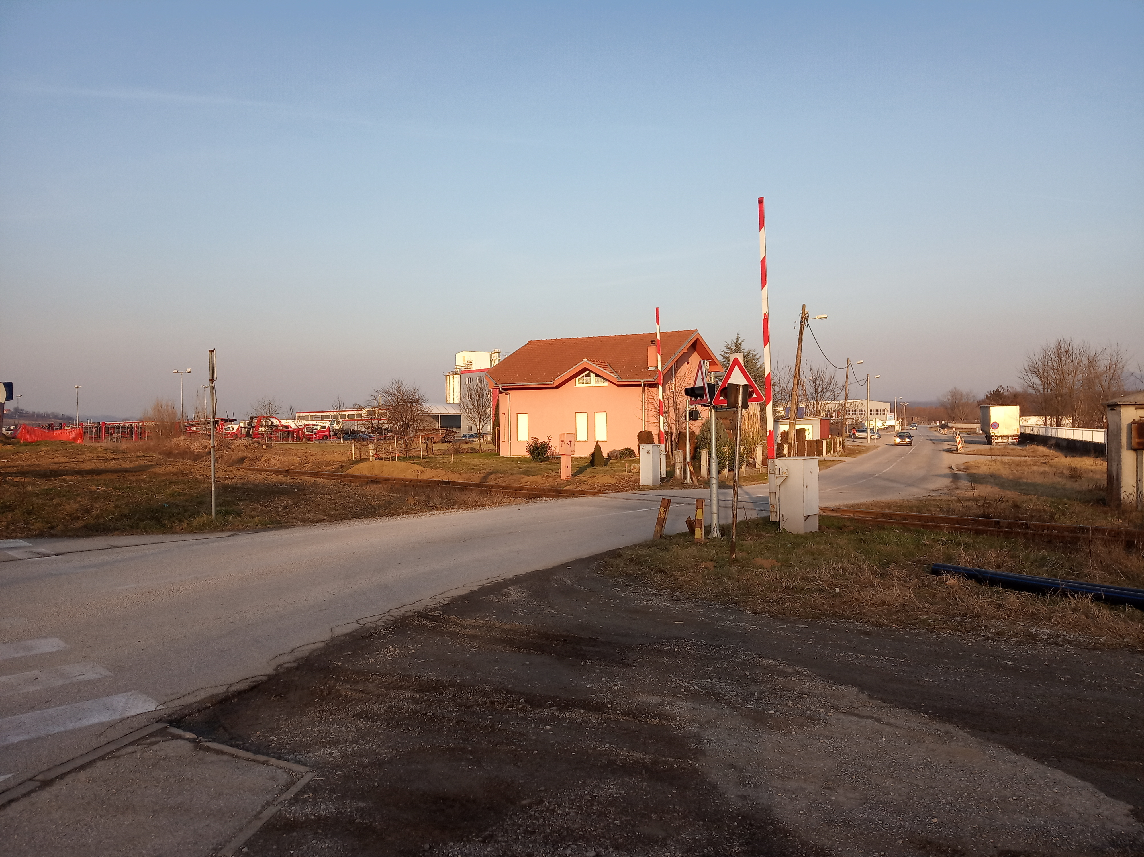 Railway crossing in Pojatno